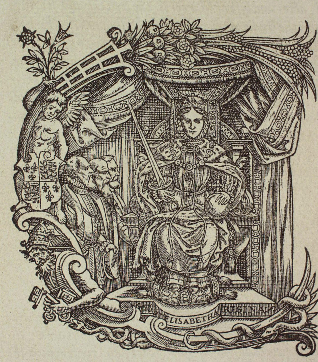 Queen Elizabeth I of England as the Emperor Constantine in the initial C; woodcut from the 1563 edition of Actes and Monuments by John Foxe.